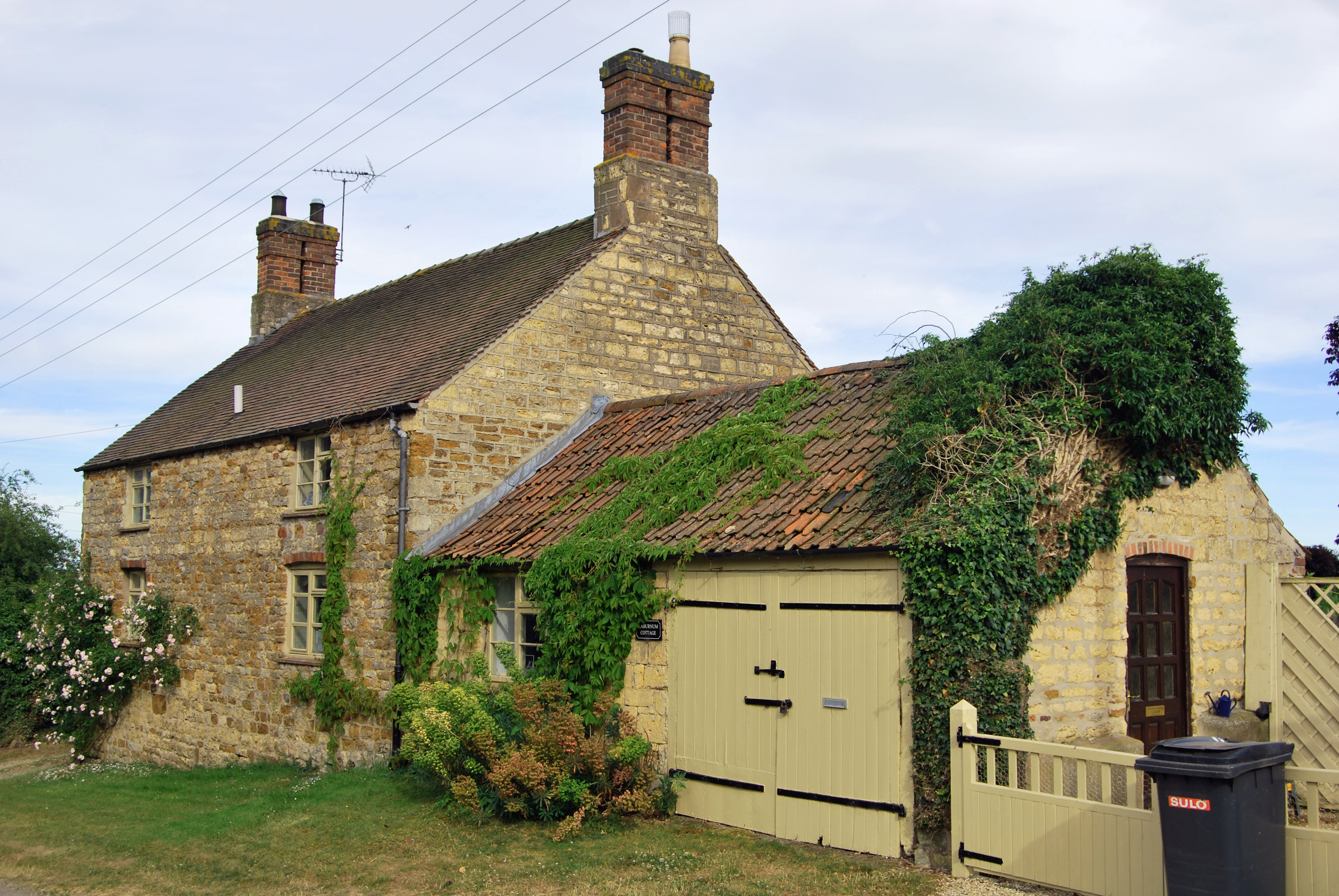 Freeby, Leicestershire, Cottage